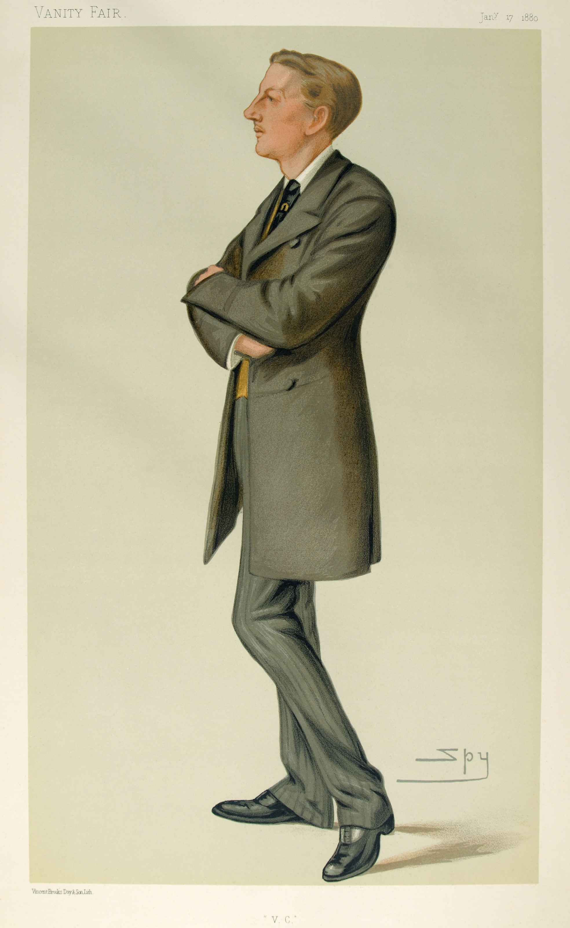 Statesmen No.320: Caricature of Capt Lord Edric Frederick Gifford VC. Caption reads: "V.C."